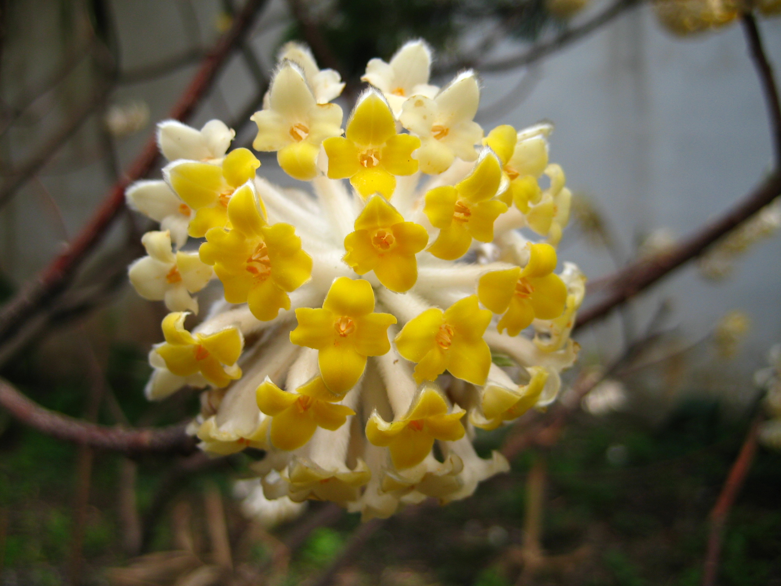 Edgeworthia chrysantha, Oriental paperbush, 結香 (In Donglin Temple, Jiujiang, Jiangxi, CHINA)